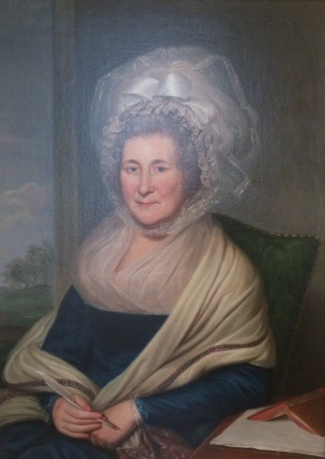 Artist Charles Willson Peale Date 1798 Medium Oil on canvas